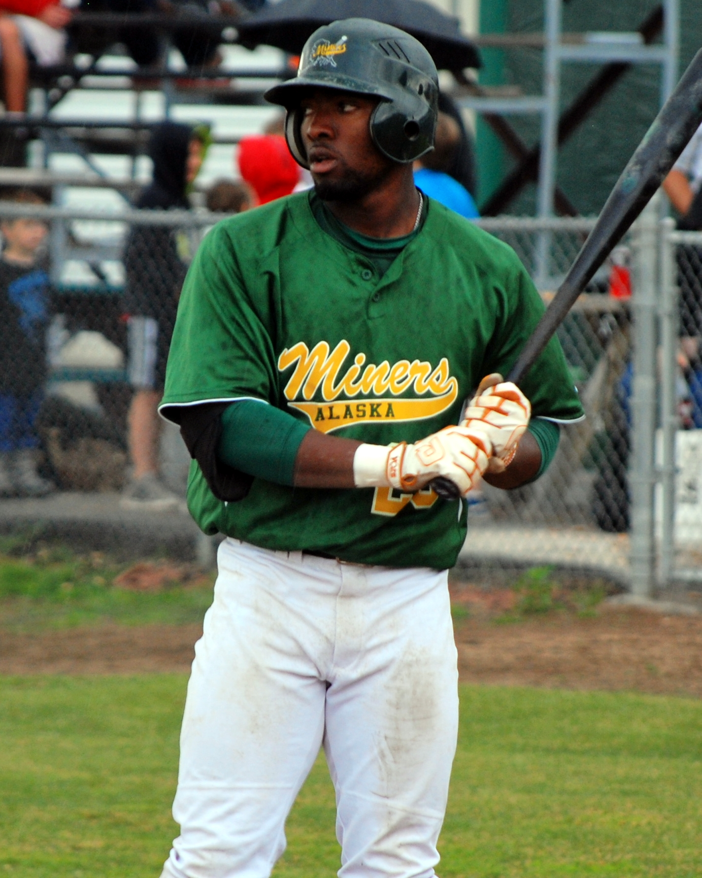 Christin Stewart with the Mat-Su Miners in 2013